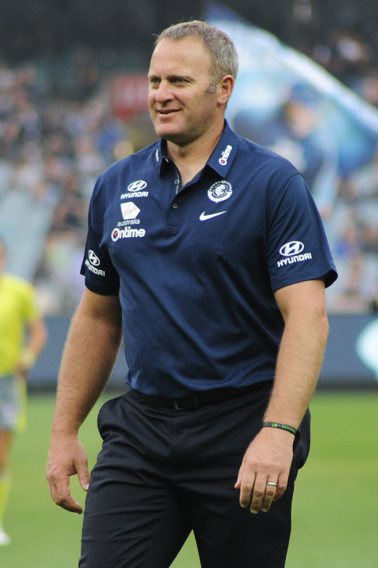 Sav Rocca during the AFL round five match between Carlton and West Coast on 21 April 2018 at the Melbourne Cricket Ground in Melbourne, Victoria.